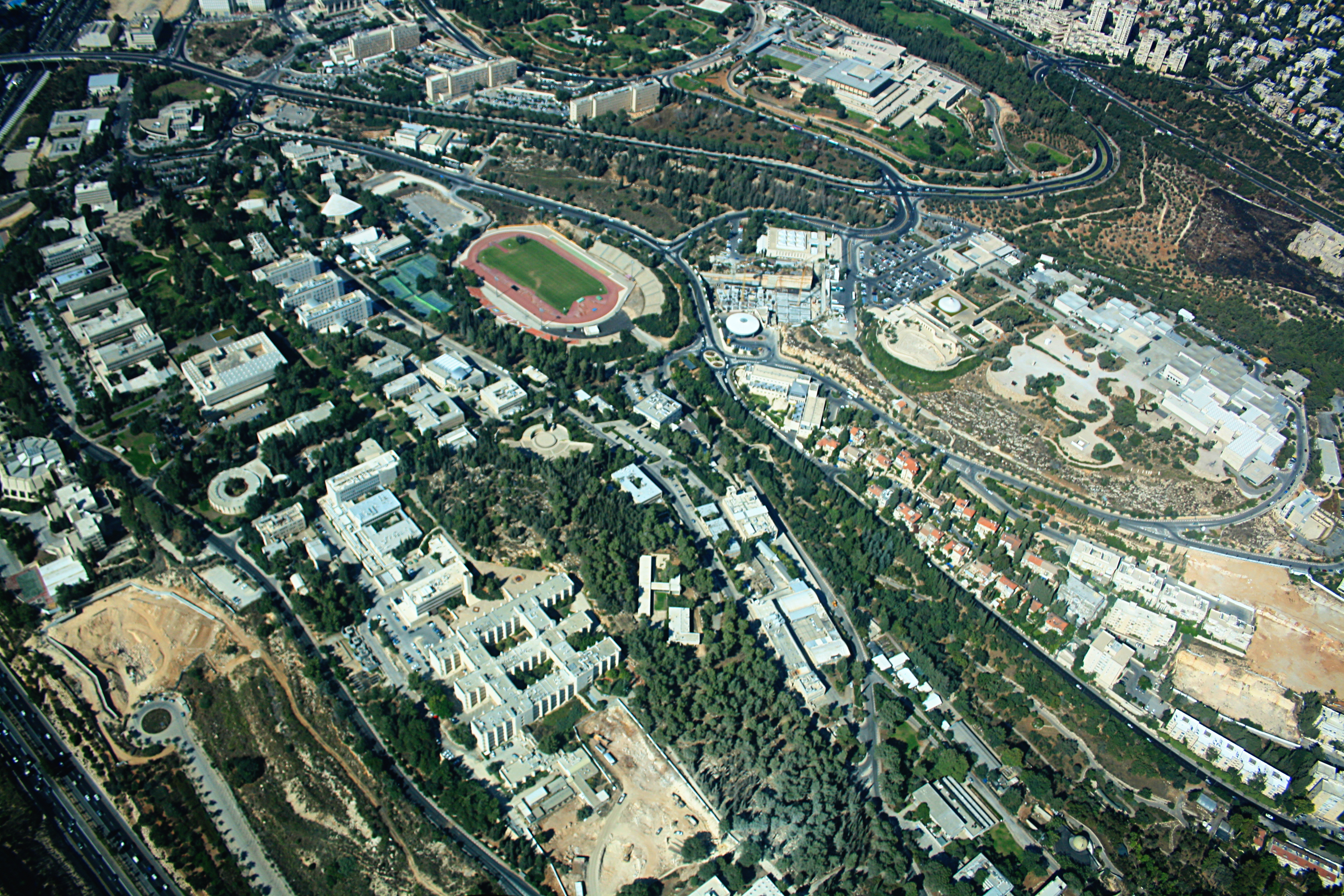 Givat Ram.